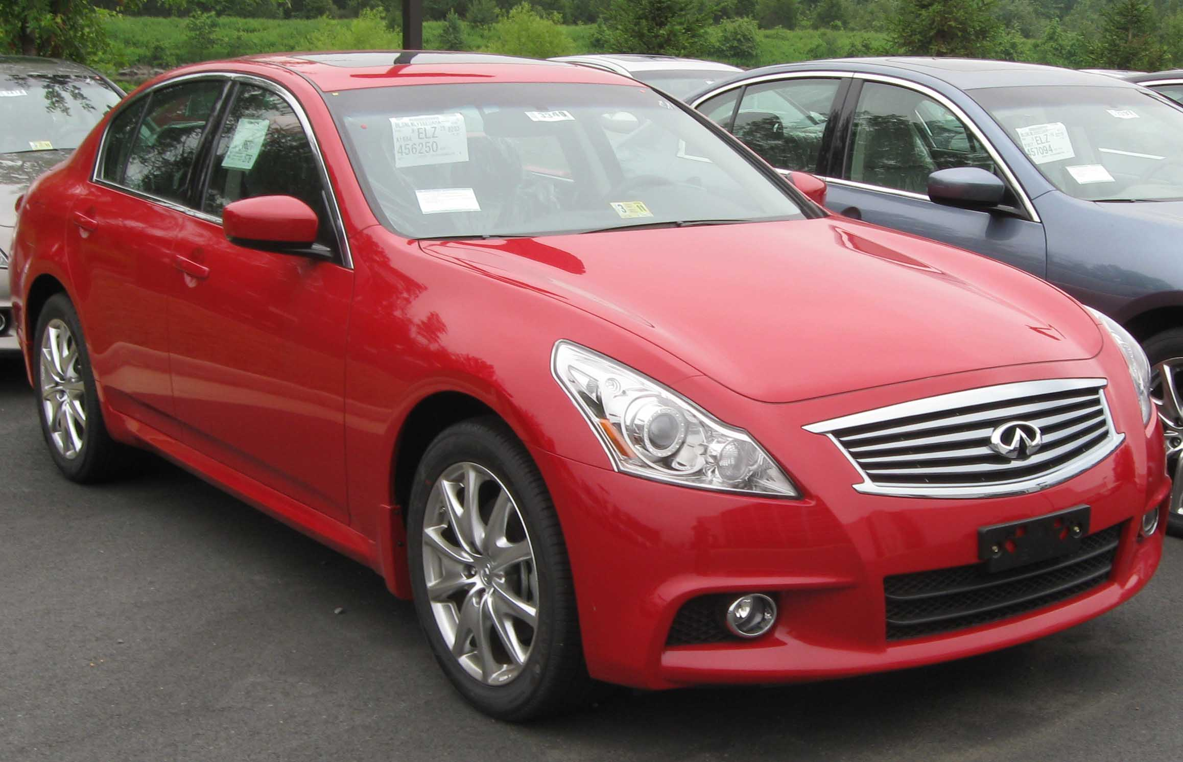 2010 Infiniti G37 photographed in Chantilly, Virginia, USA.